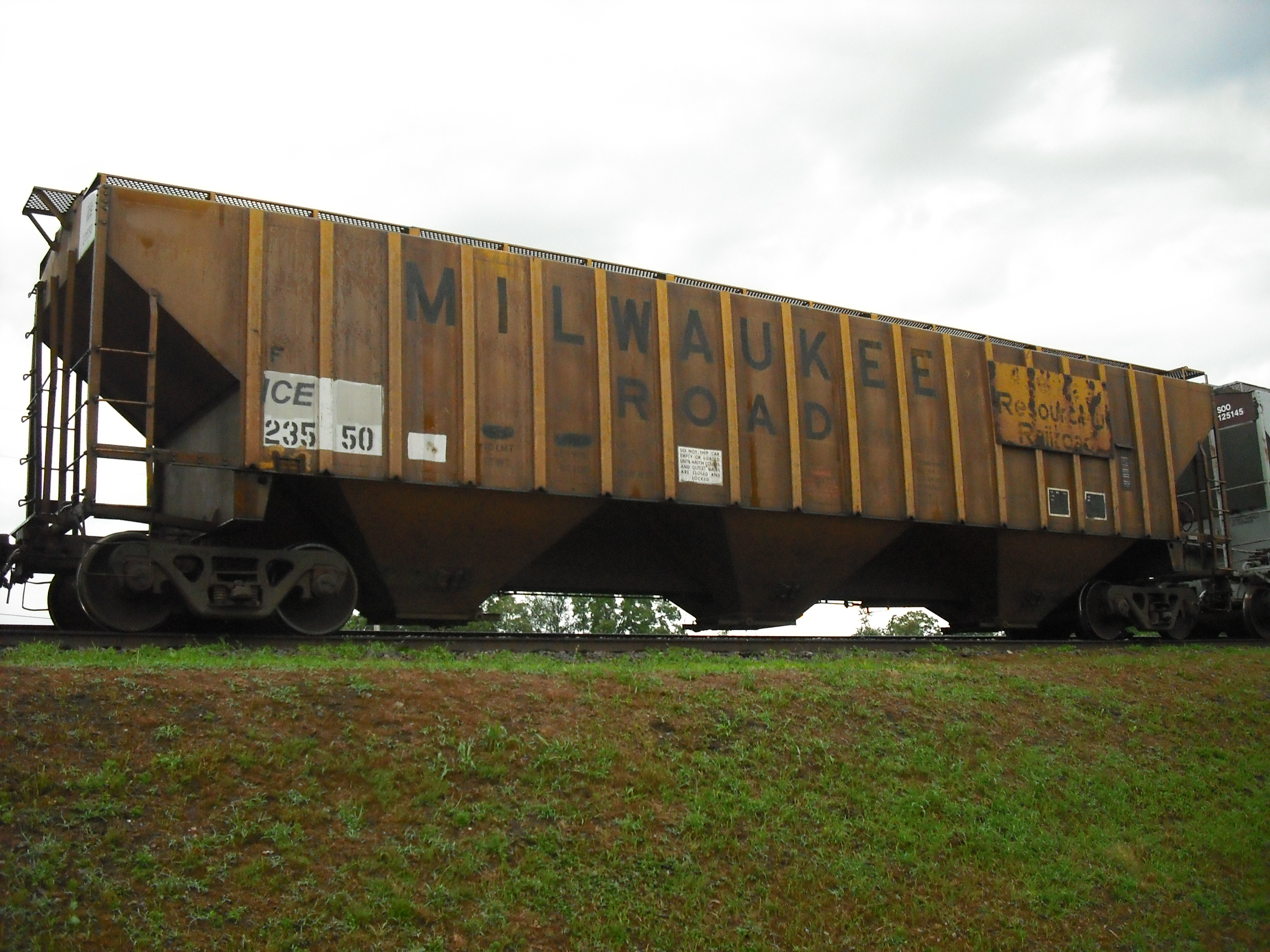 The Milwaukee Rd. cover hopper for grain